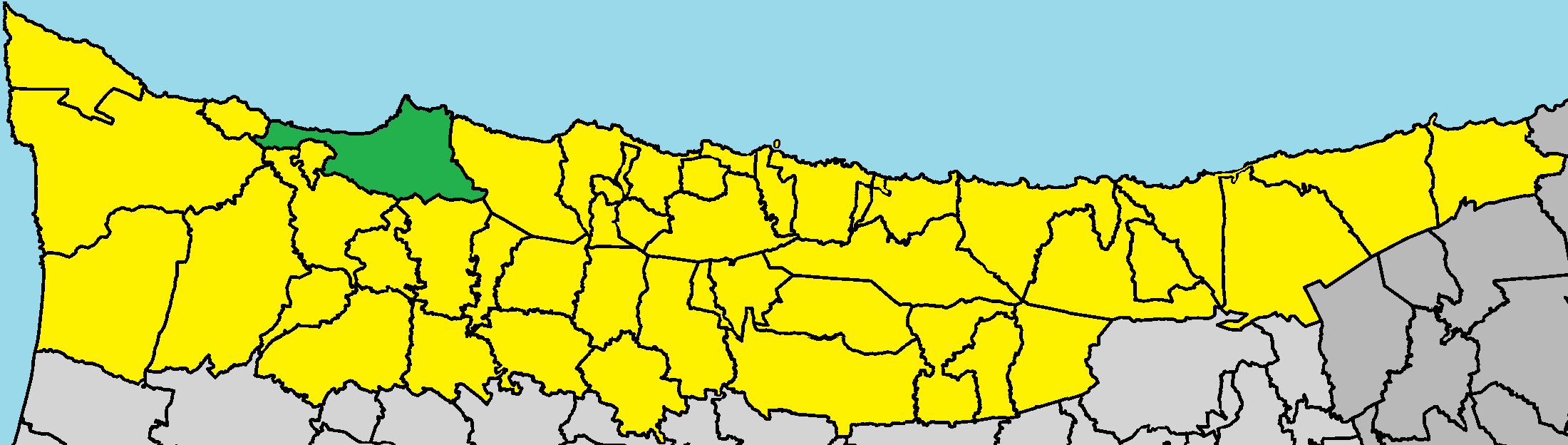 Vasileia in Kyrenia District (de jure).